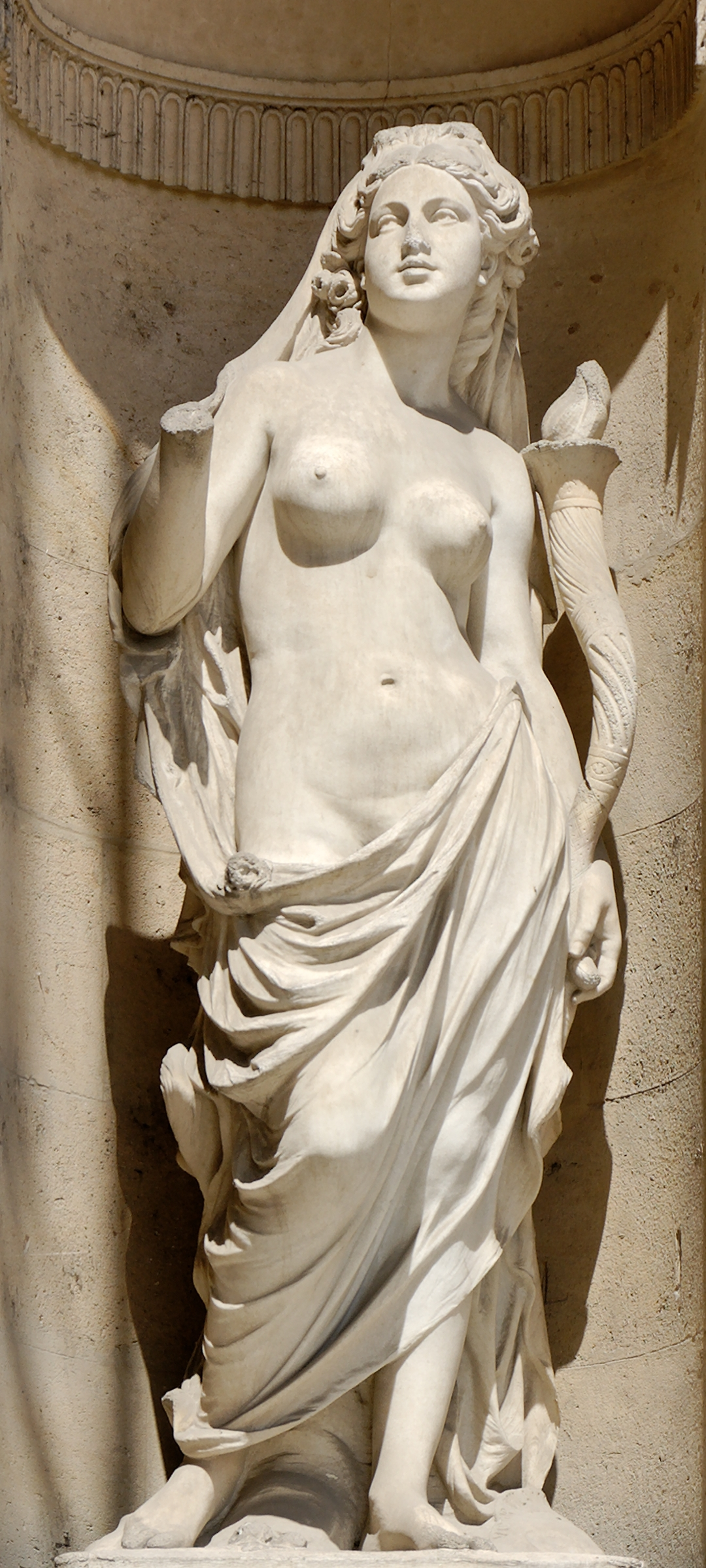 Dawn (1883), by Victor Vilain (1818-1899). North façade of the Cour Carrée in the Louvre palace, Paris.